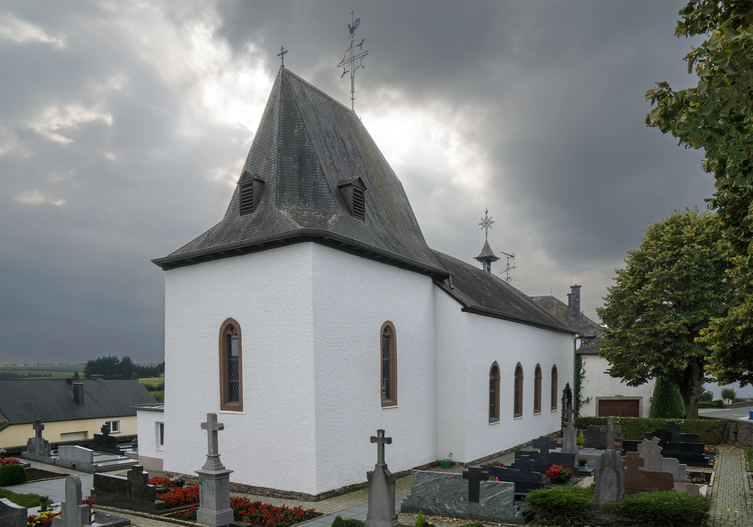 Church of Lieler